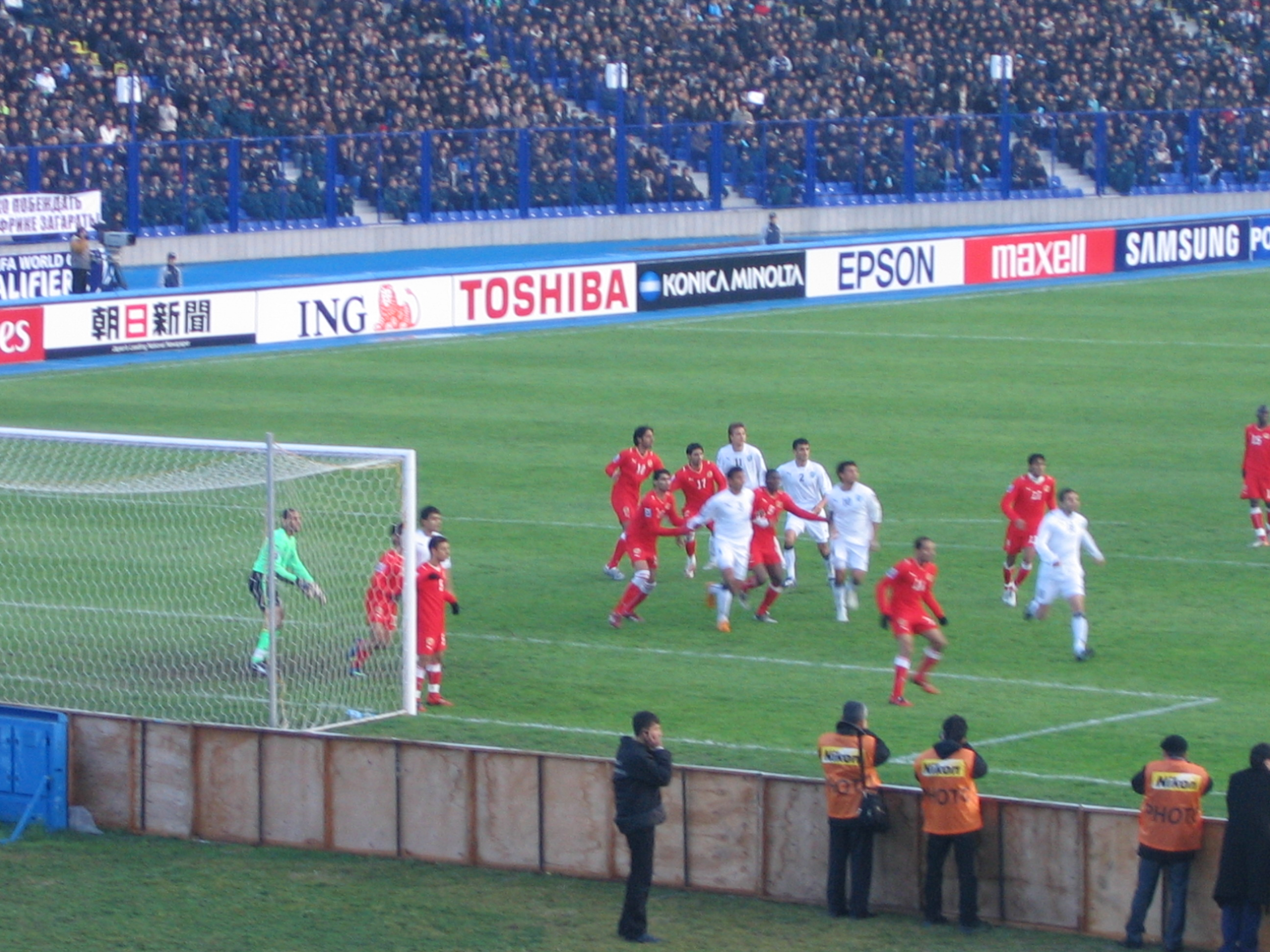 Soccer players waiting for a corner kick during qualification match for the 2010 Soccer World Cup (Asian zone) : Uzbekistan- Bahrain (0-1), at Pakhtakor Stadium, in Tashkent (Uzbekistan). Uzbekistan is in white, Bahrain is in red.